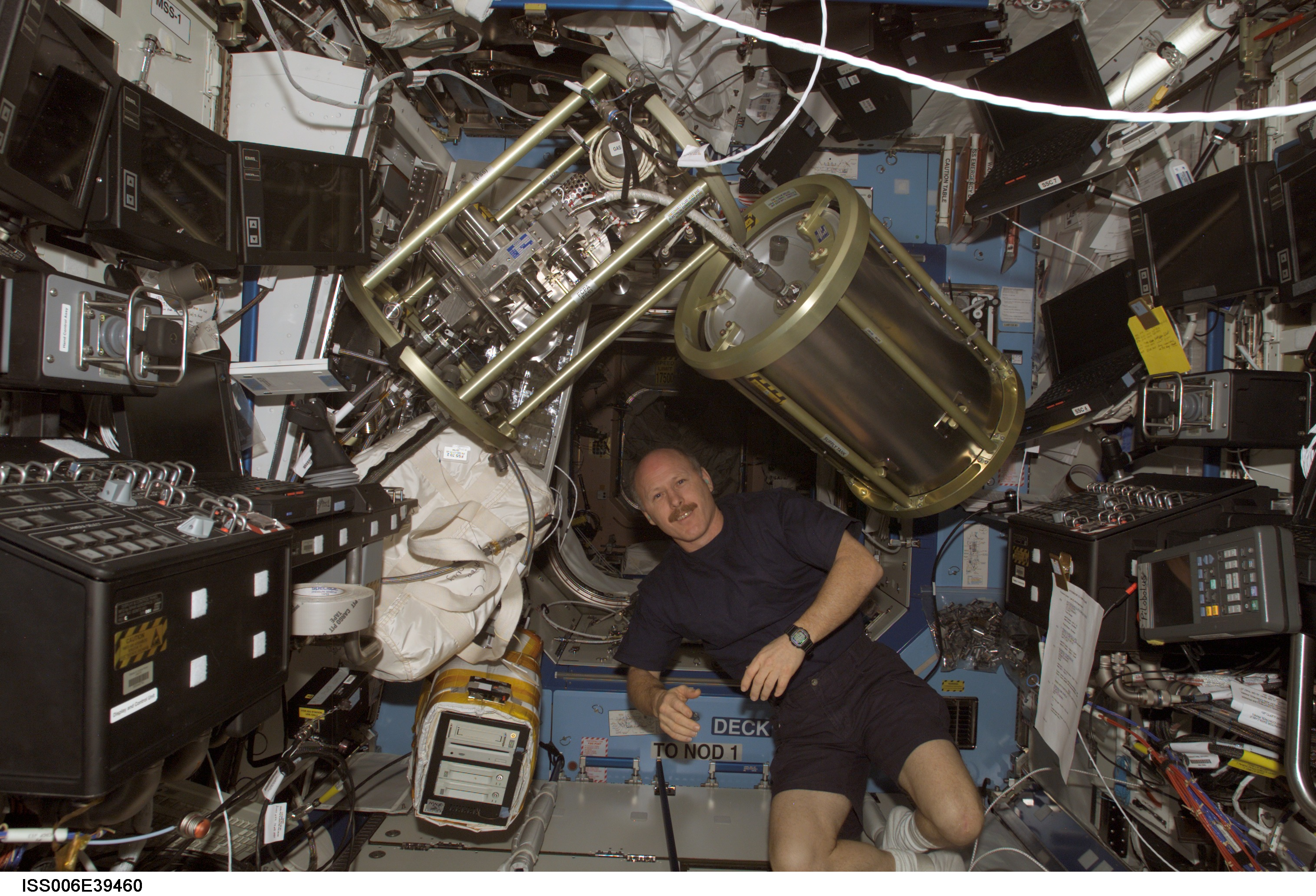 Astronaut Kenneth D. Bowersox, Expedition Six mission commander, is pictured in the Destiny laboratory on the International Space Station (ISS). The supply tank and Fluid Control Pump Assembly (FCPA), which are a part of the Internal Thermal Control System (ITCS), are visible floating freeing above Bowersox.